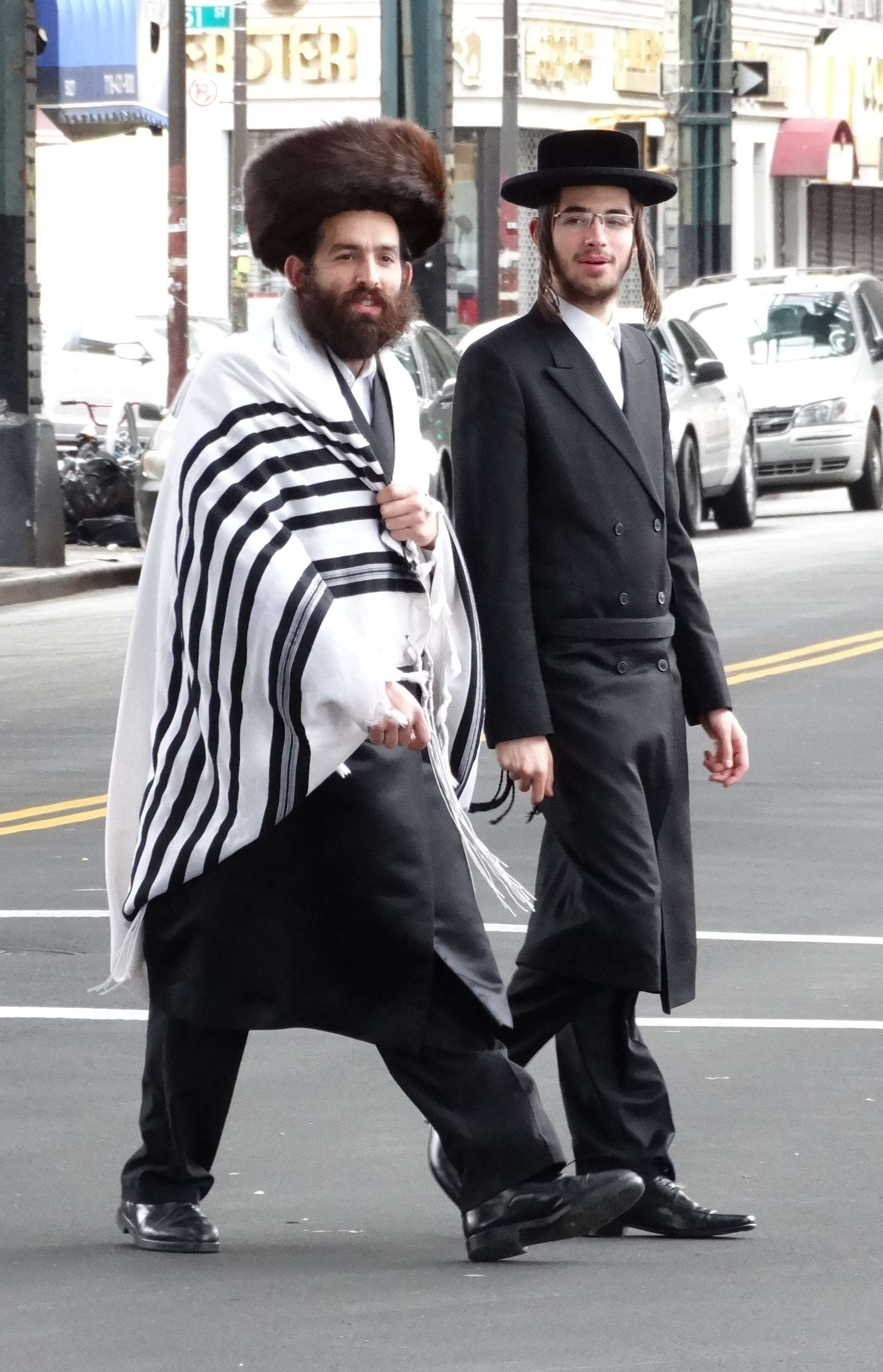 Hasidic Men on Street - Borough Park - Hasidic District - Brooklyn - New York - USA by Adam Jones